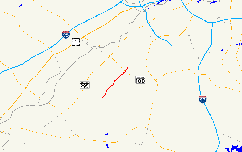 Map of Maryland Route 713